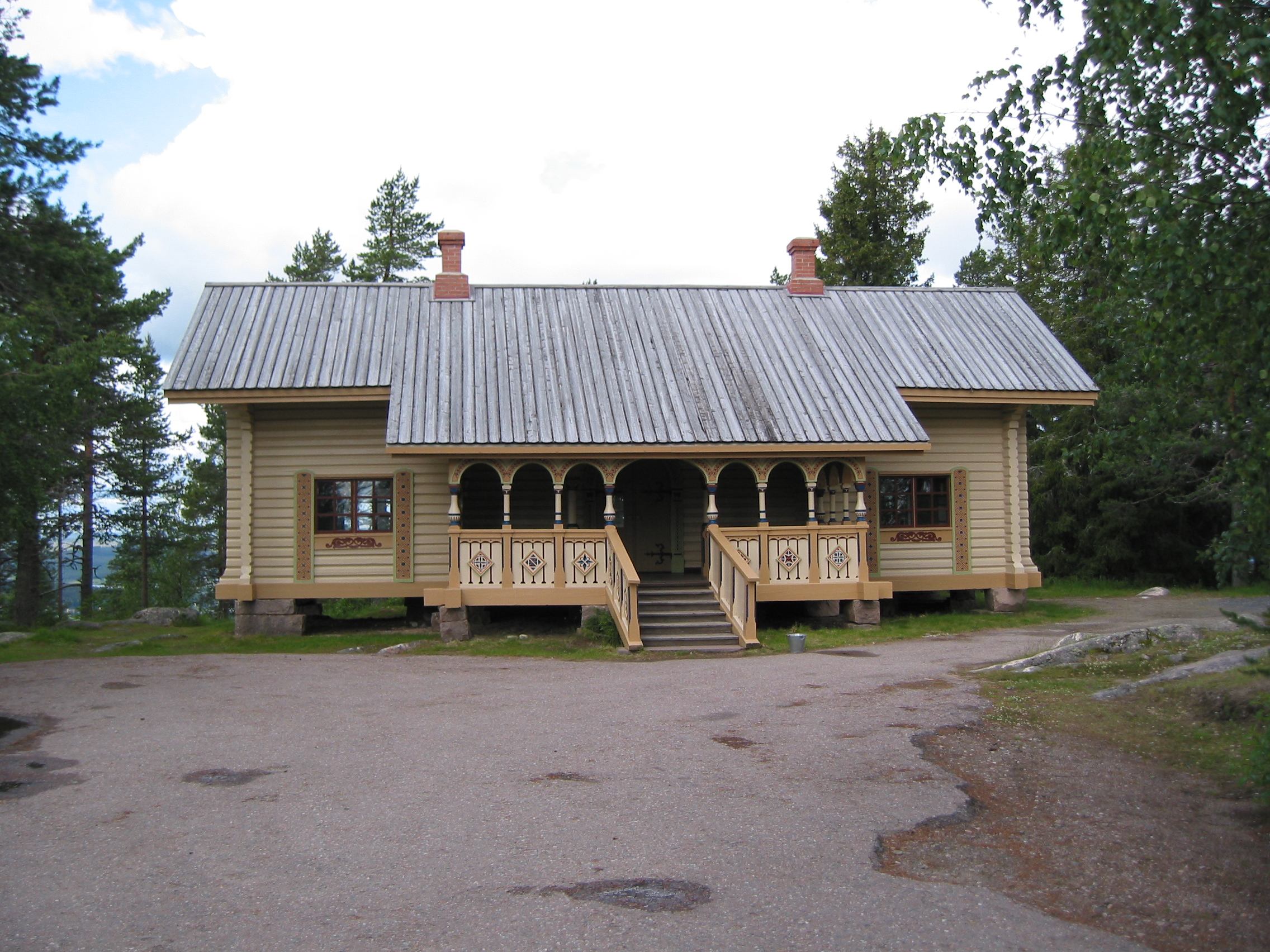 So called Emperor's Villa (ref. to Emperor of Russia) on the Aavasaksa hill, Ylitornio, Finland.